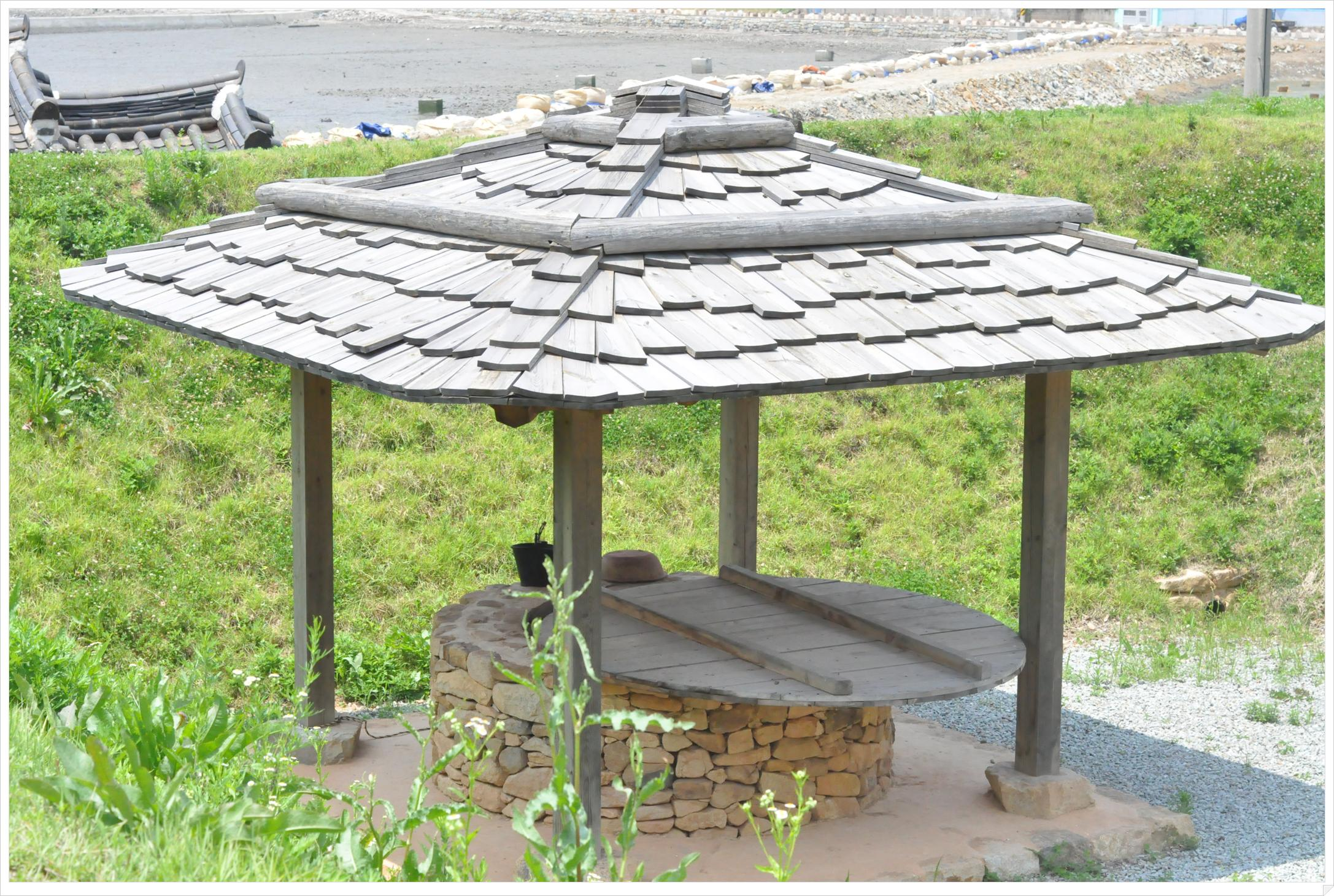 the Well of Chunghaejin